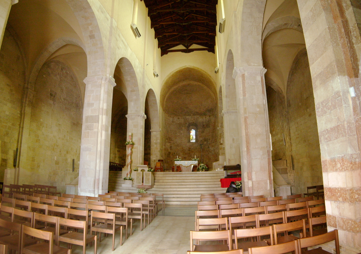 Inside the Cathedral of Saint Mary of the Purification in Termoli, Molise